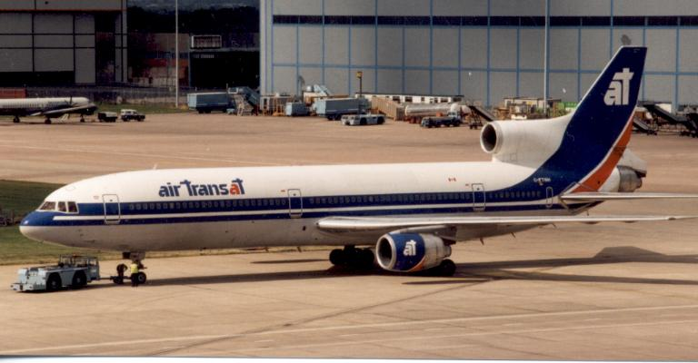 L1011-150 TriStar of Air Transat (Canada) at Manchester